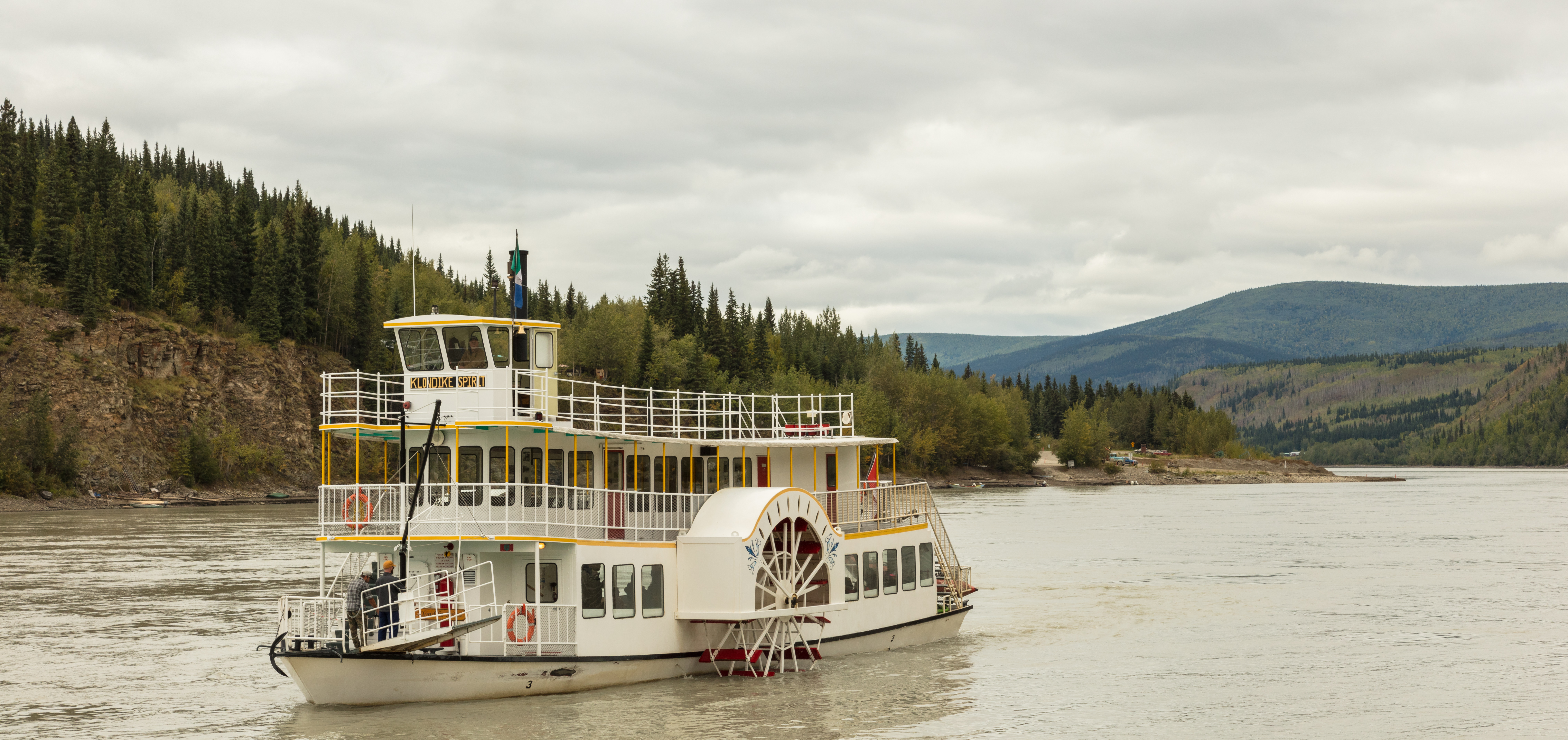 Steamboat in the Yukon river, Dawson City, Yukon, Canada